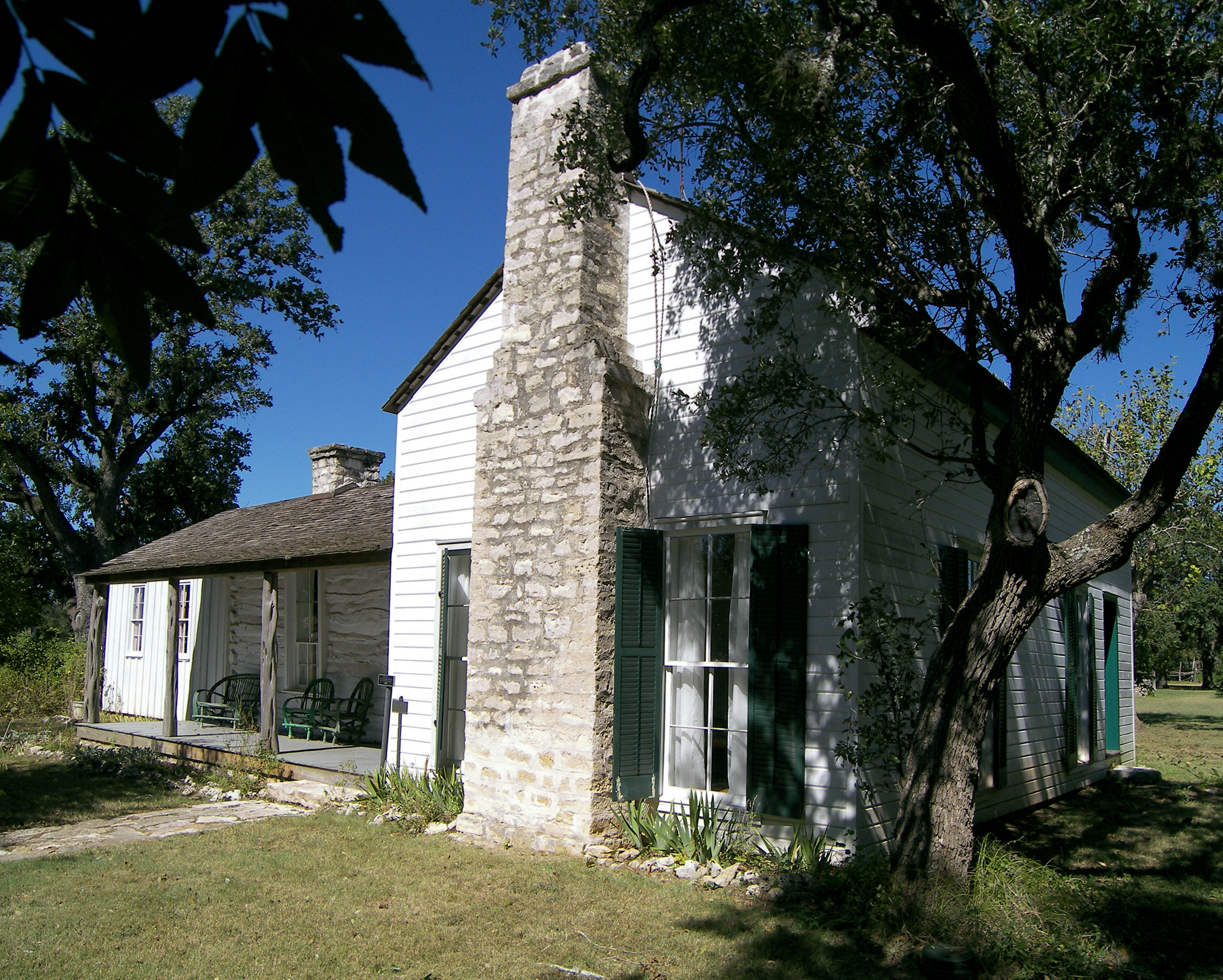 The Dr. Joseph M. and Sarah Pound Farmstead, located in Hays County, Texas. The property was listed on the National Register of Historic Places on July 28, 1995. The farmstead is part of Founder's Park in Dripping Springs.